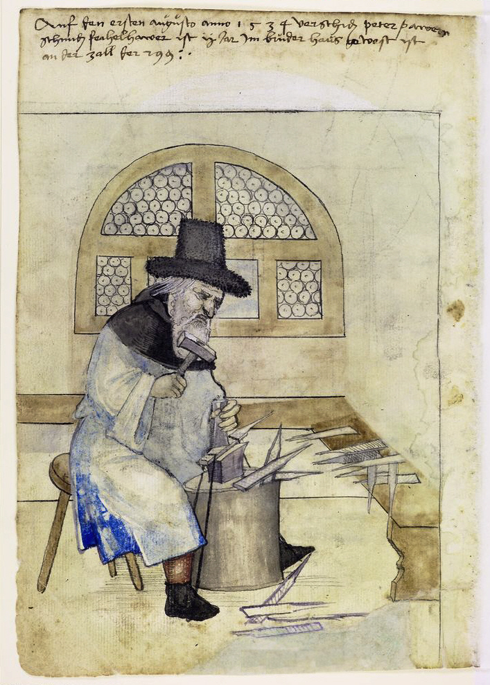 Historic making of files (engineering) in Nuremberg in 1534